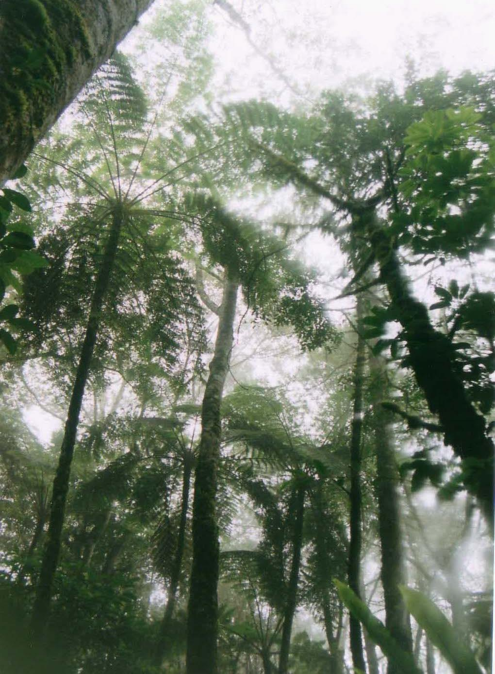 Montane forest at Ceremai mountain, Kuningan, West Java.